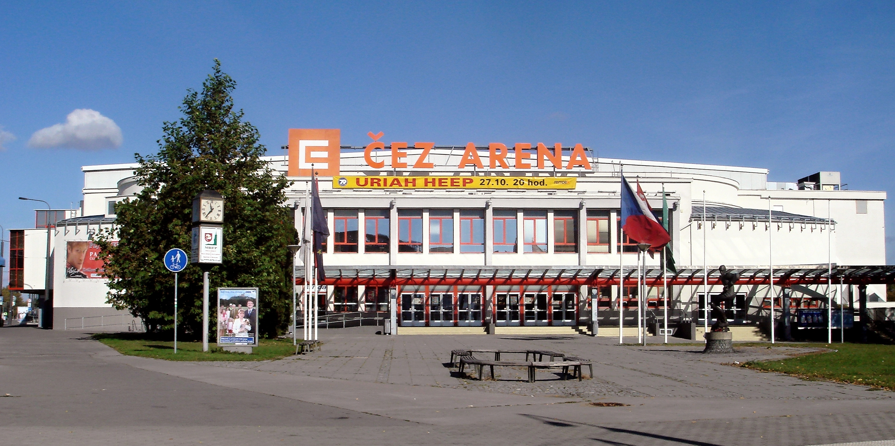 The ČEZ Arena in Pardubice (Pardubice Region, Czechia).